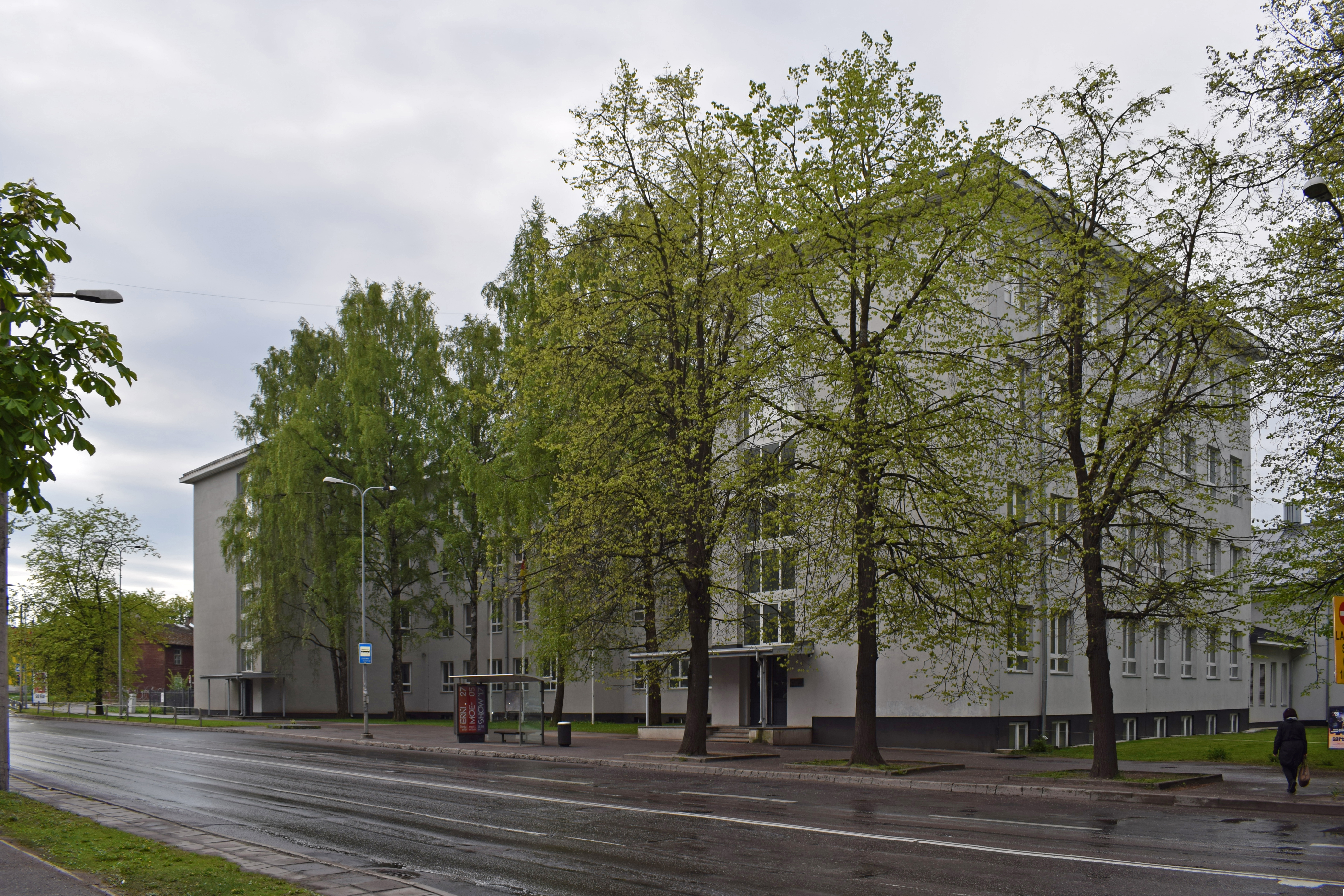 Kadrioru Saksa Gümnaasium, Gonsiori 38